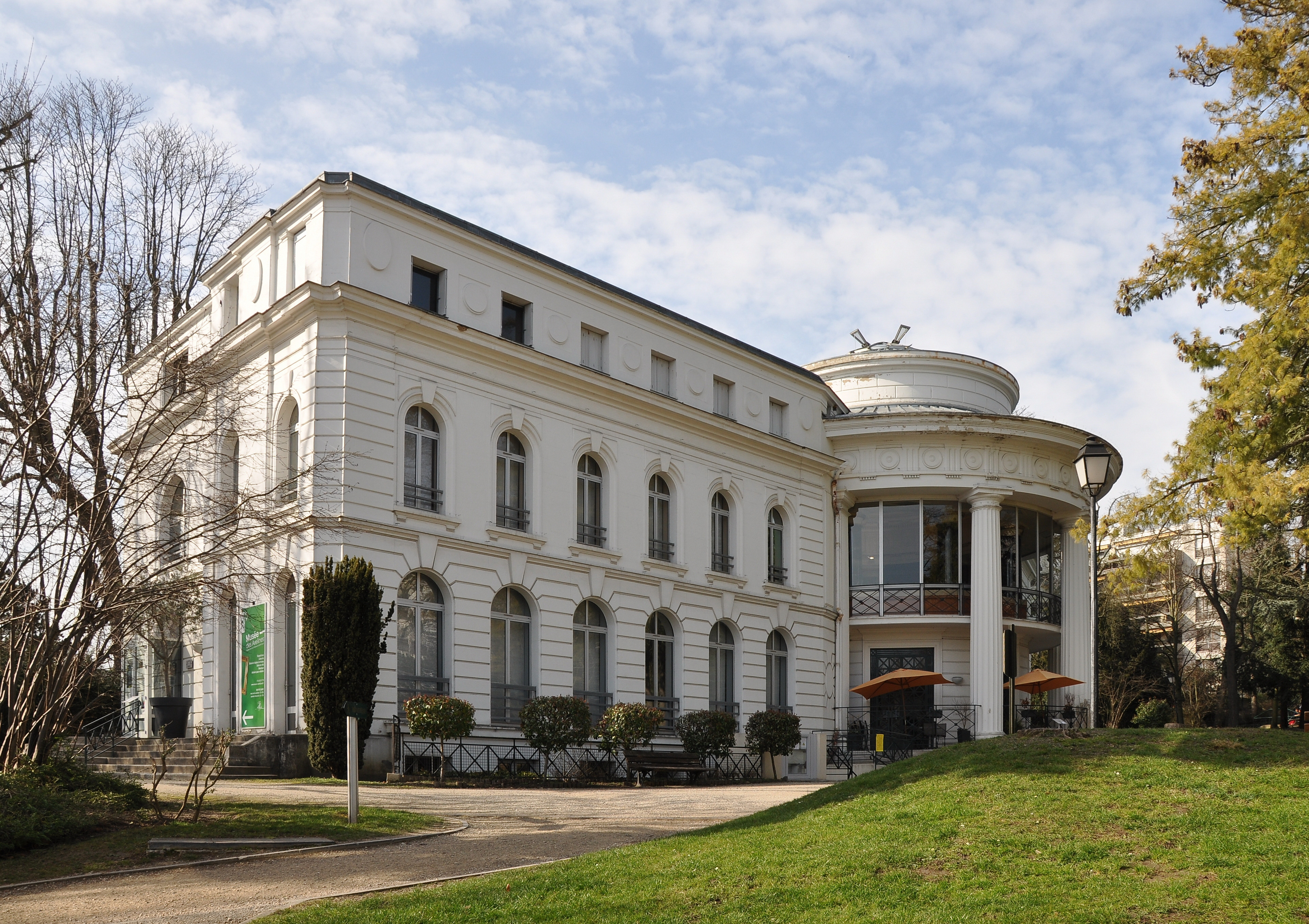 The museum of Avelines at 60 rue Gounod in Saint-Cloud, Hauts-de-Seine department, France.